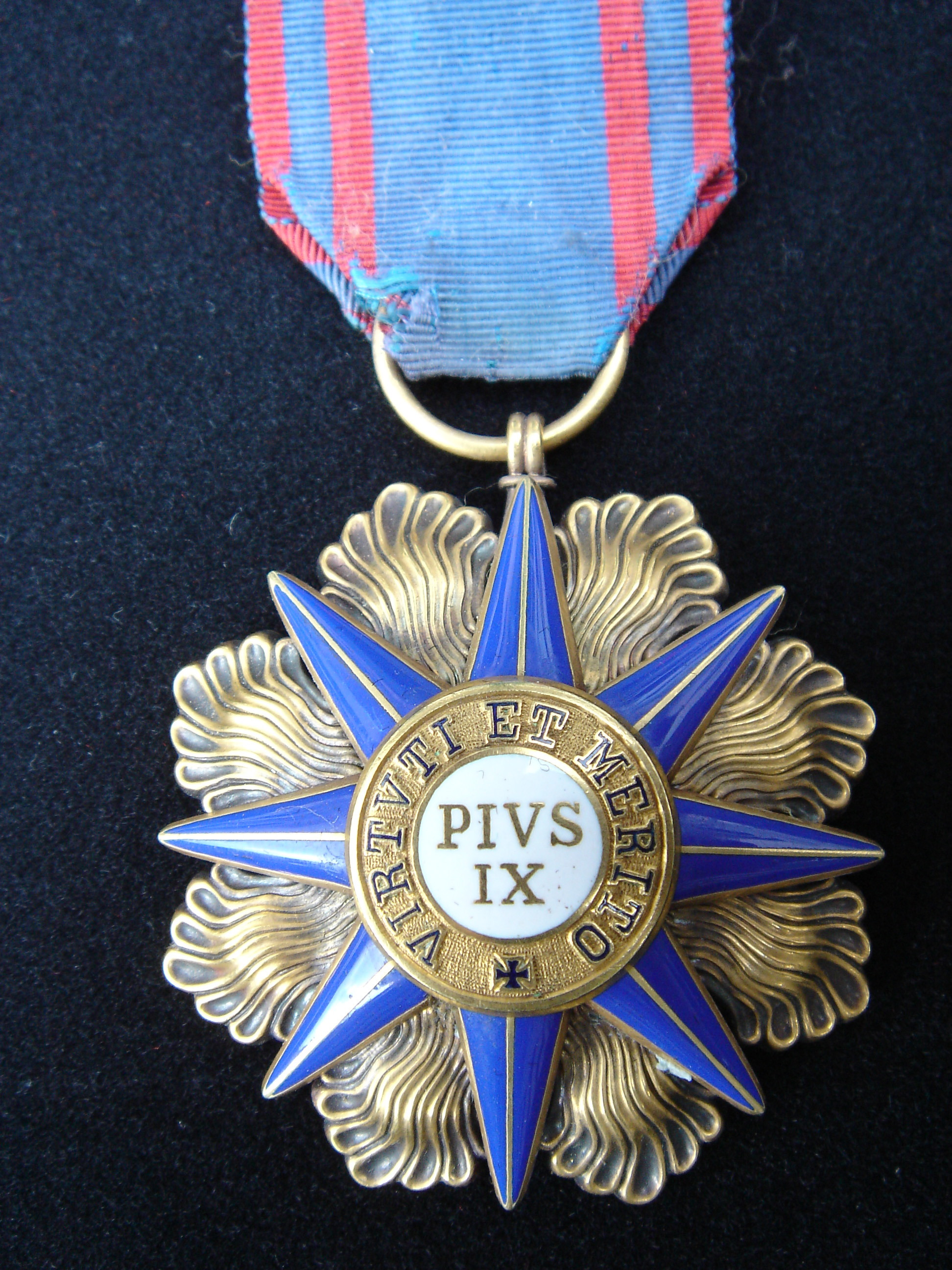 Order of Pio IX Italy